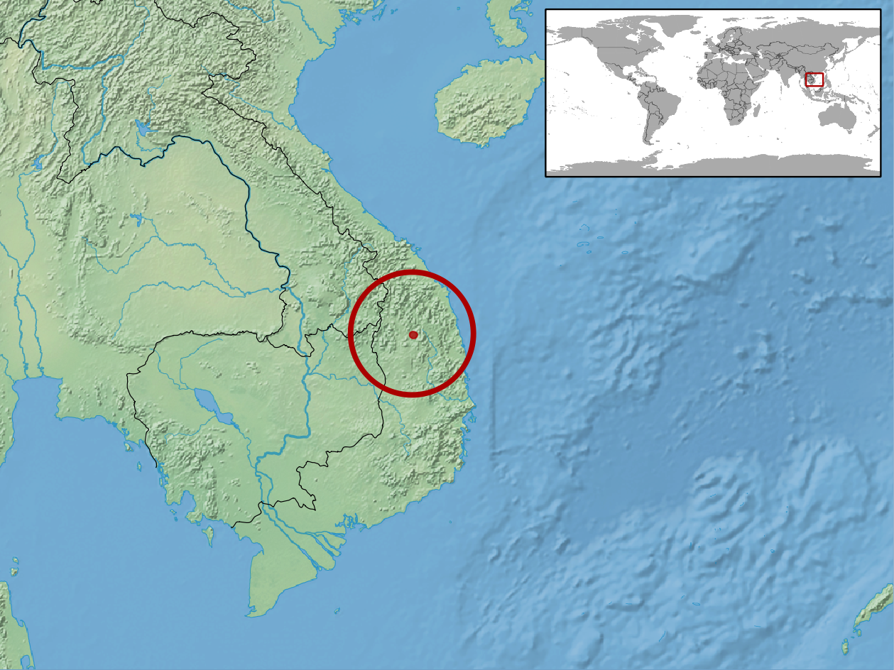 geographic distribution of Vietnascincus rugosus